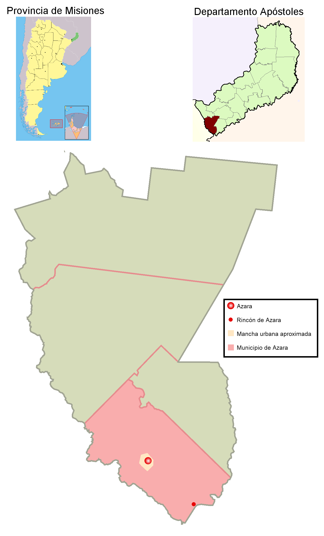 A map showing municipio of Azara in Apóstoles departament, Misiones province, Argentina. Also shows Azara town location, its urban sector and Rincón de Azara town location. Created with GIMP.